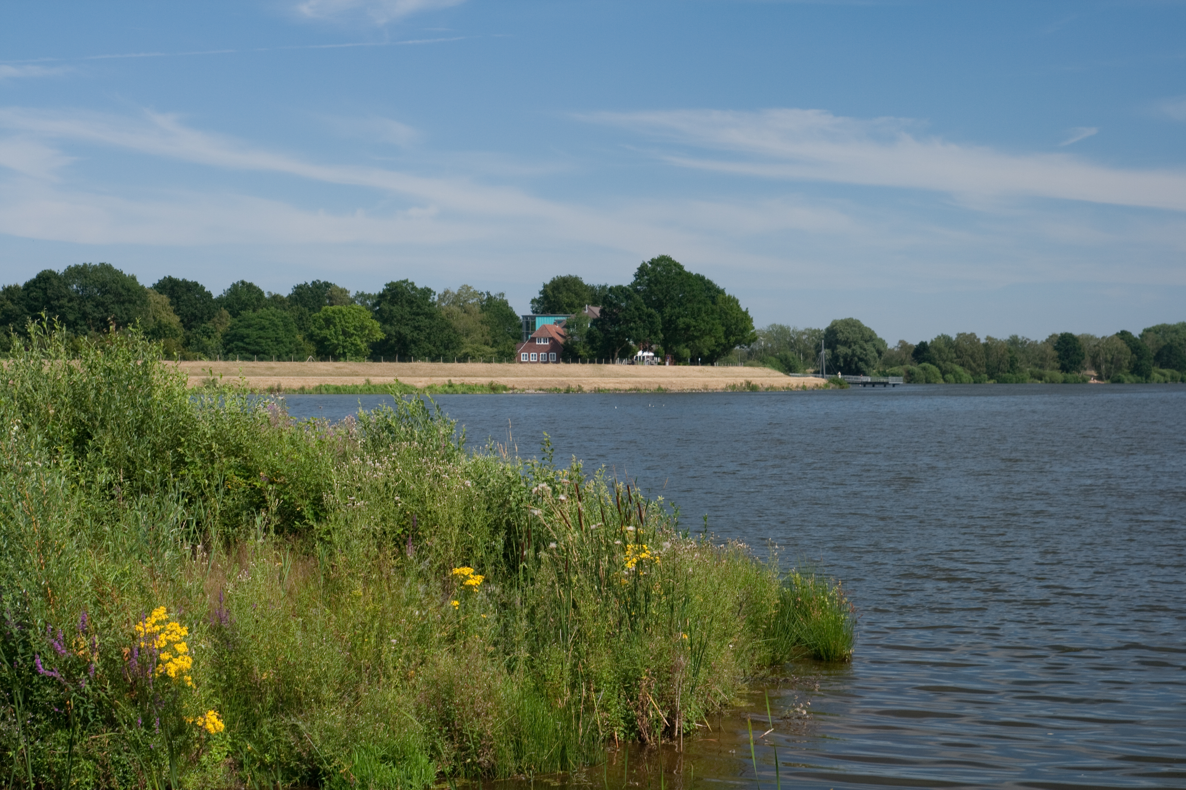 The Thülesfelde Reservoir